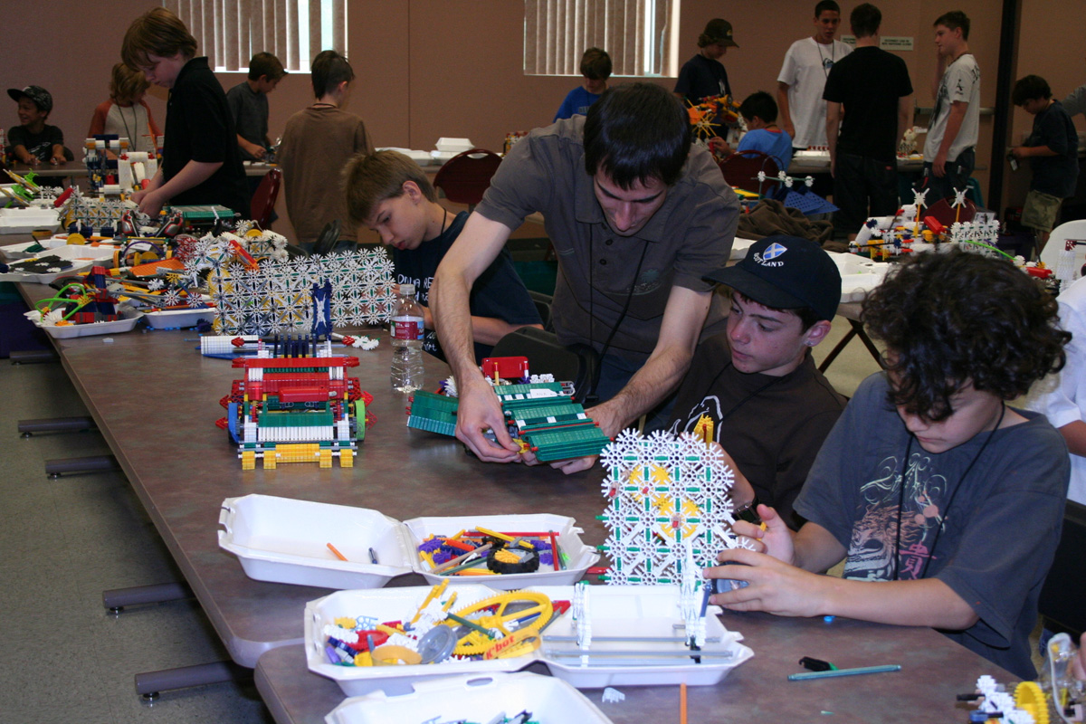 Own photograph, taken July 2009. Source